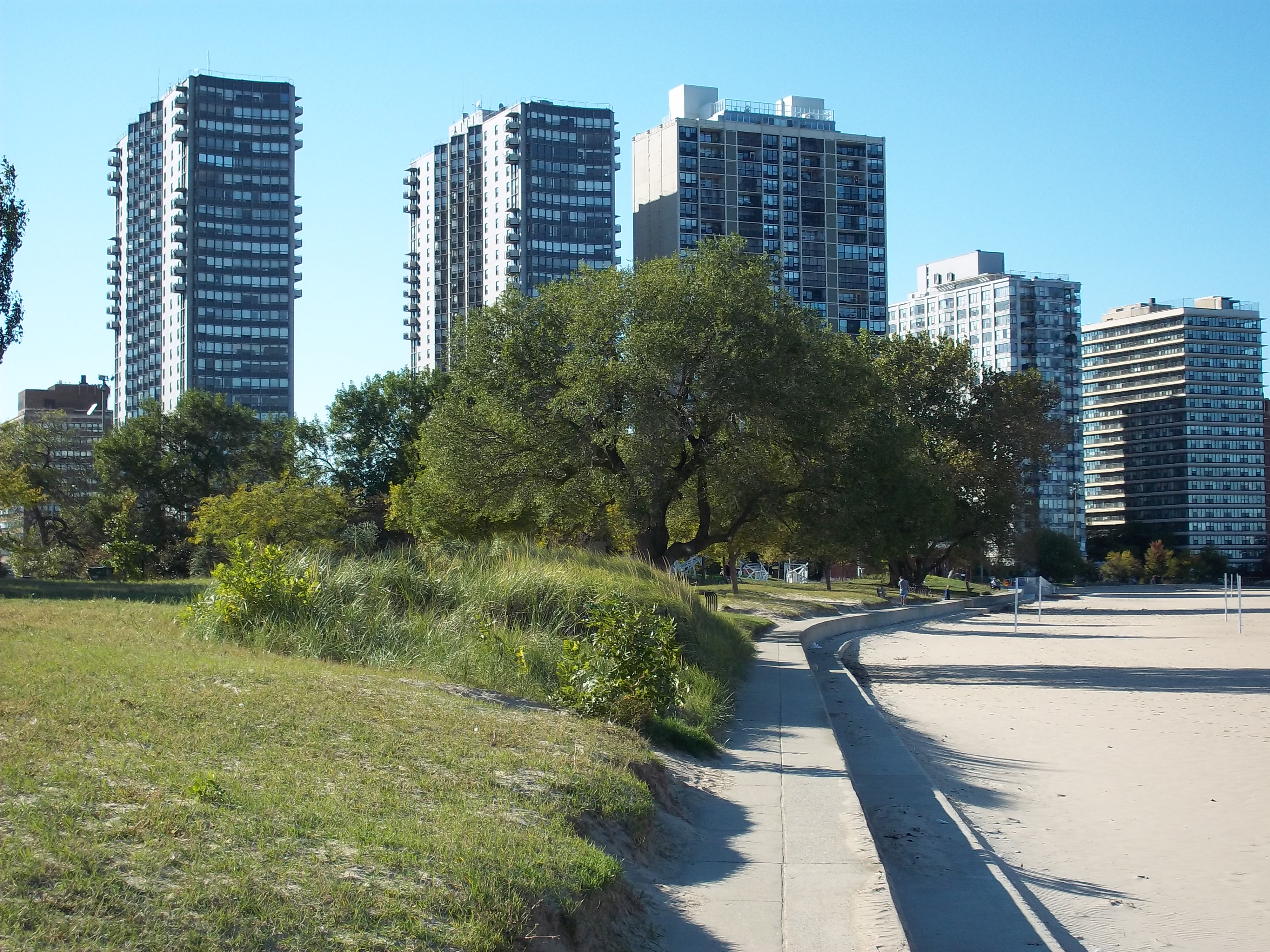 Edgewater Chicago Hollywood Osterman Beach